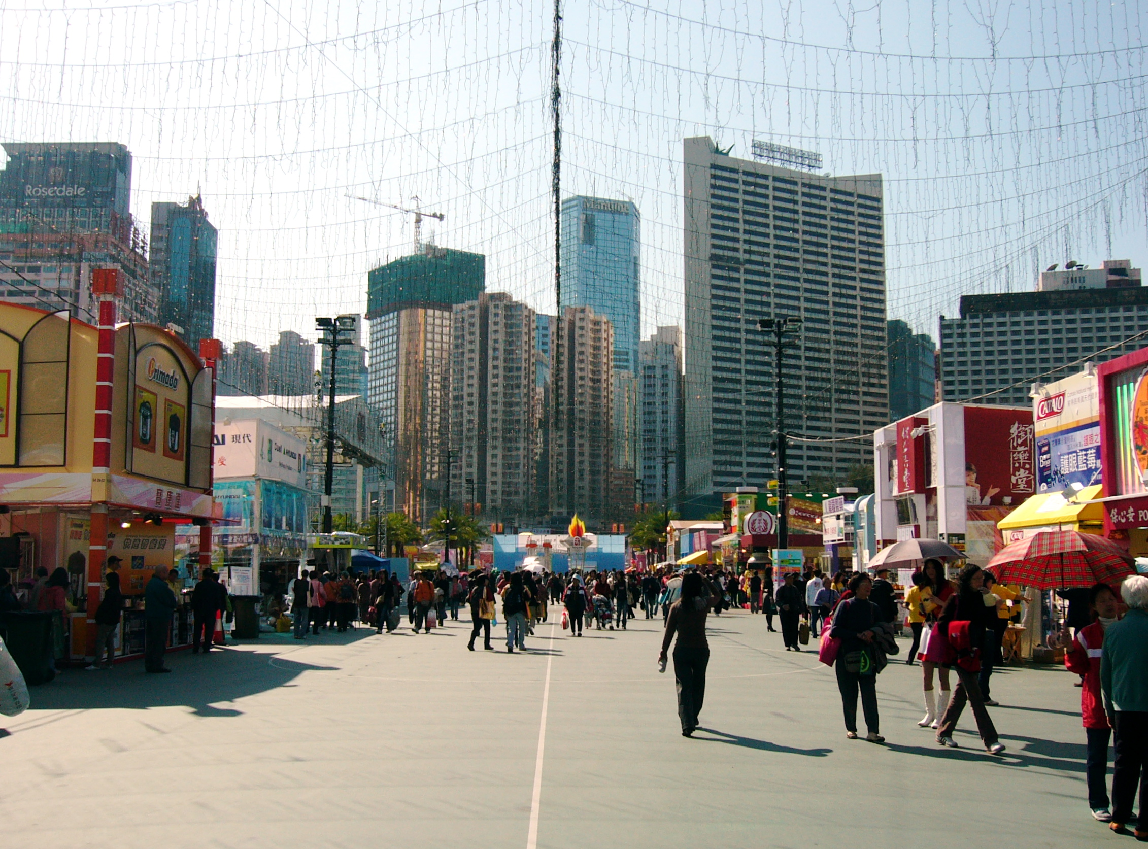 工展會 (Hong Kong Brands and Products Expo) 2006, Victoria Park; 19 December 2006. Photo taken by Si Chun Lam.